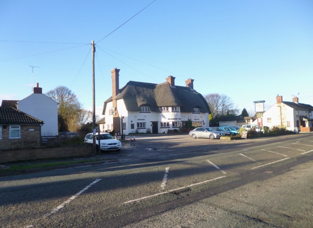 Photograph of the Bleeding Wolf Public House, Odd Rode, Cheshire